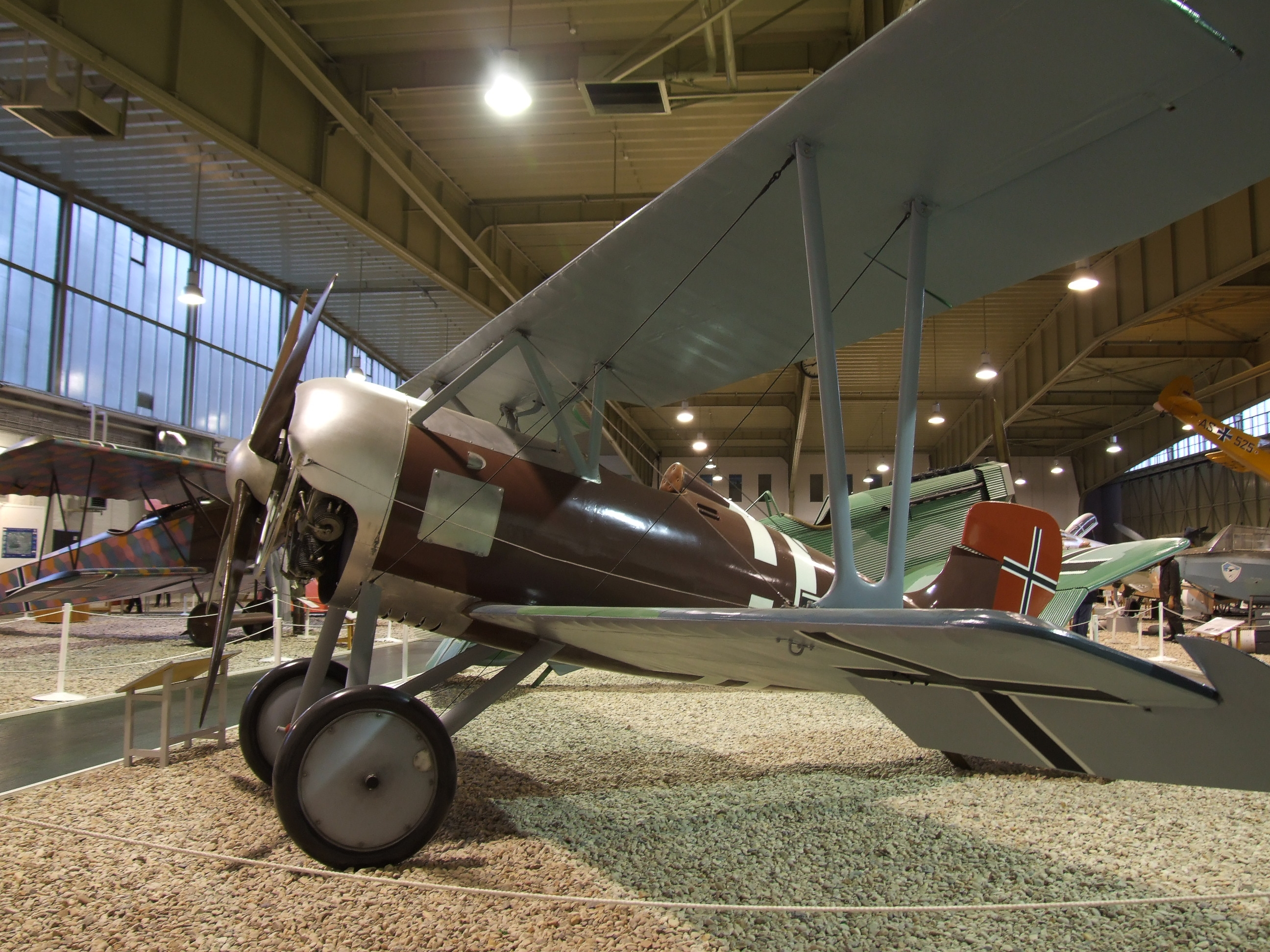 Luftwaffenmuseum der Bundeswehr - Siemens Schuckert III